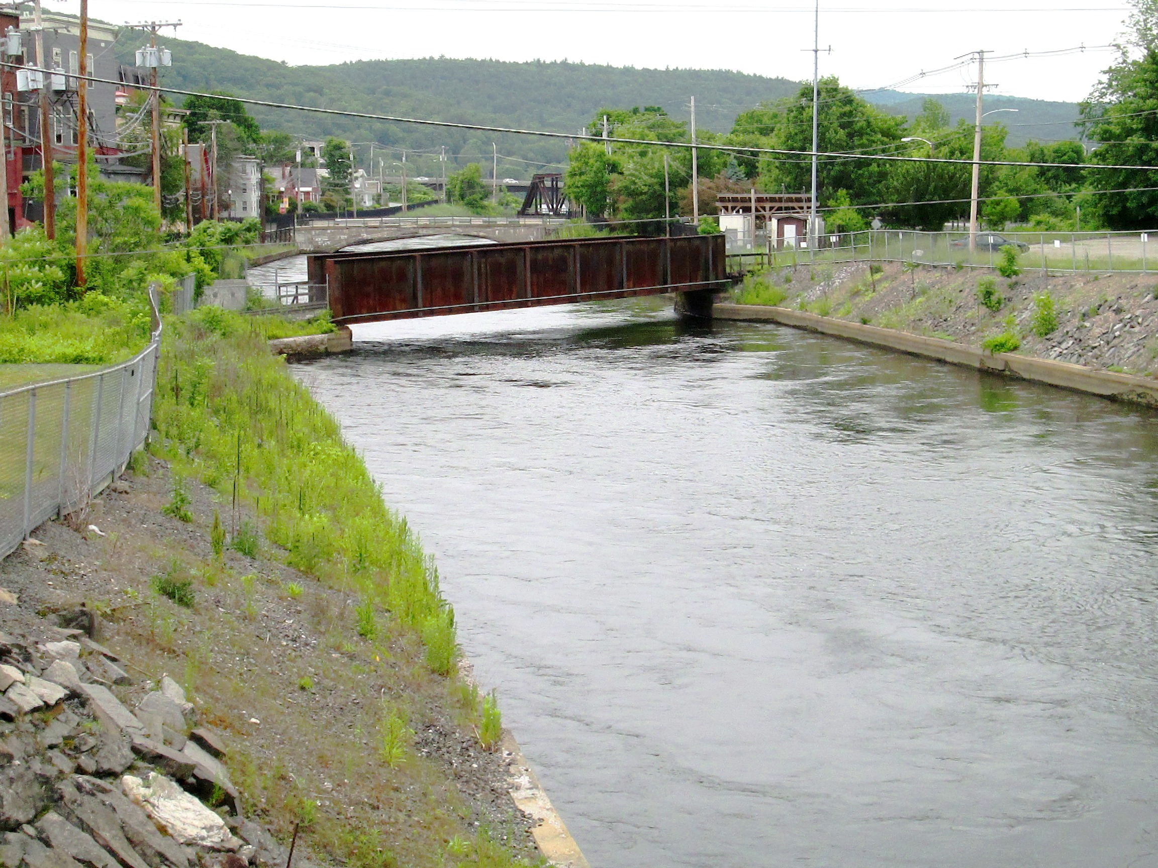 The Bellows Falls Canal as seen from the Bridge Street bridge in Bellows Falls, Vermont.